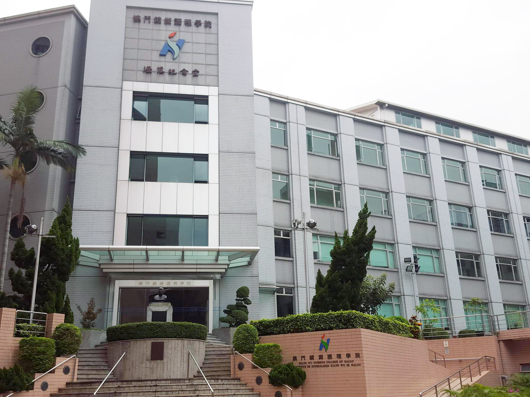 Kiang Wu Nursing College